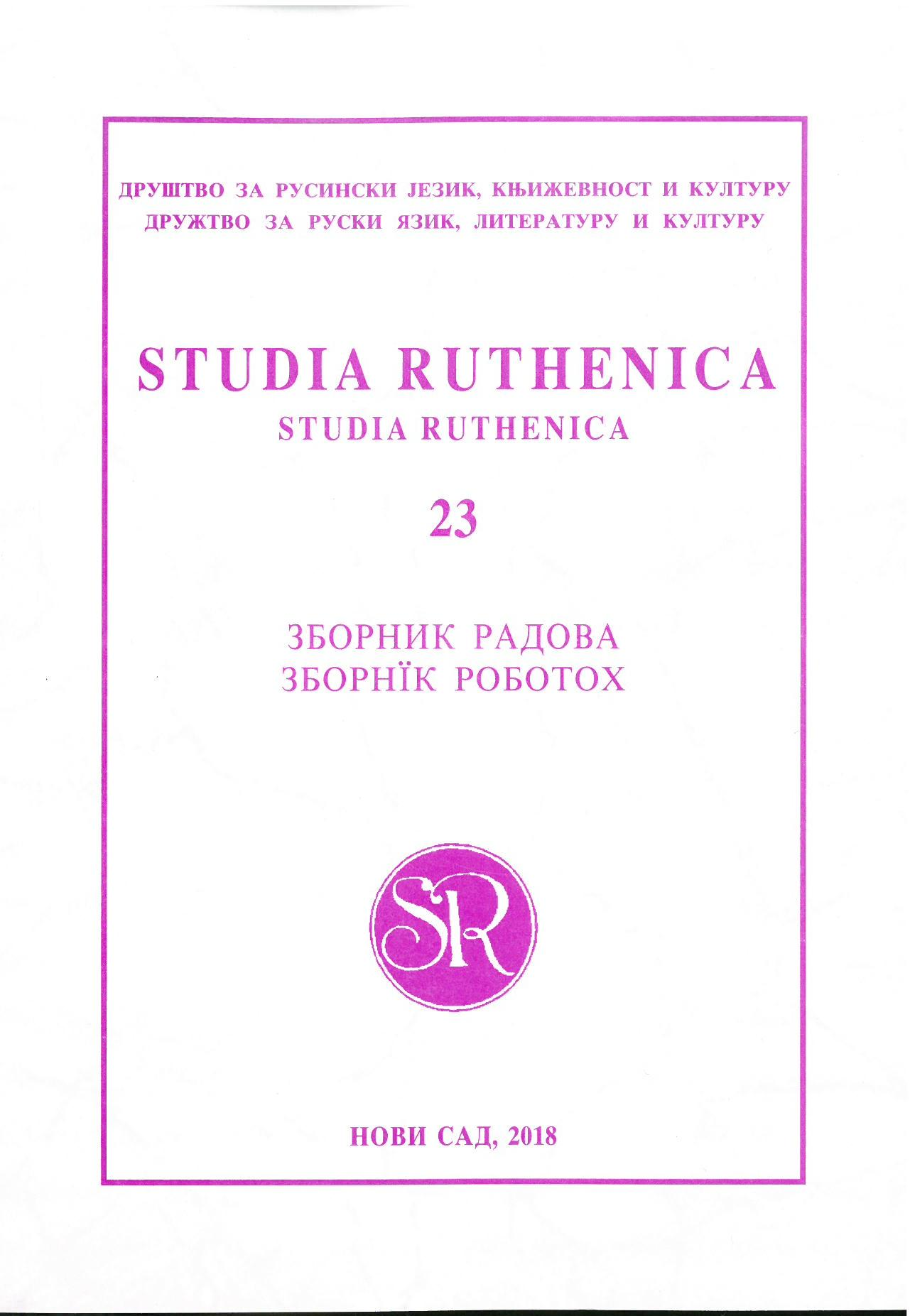 Cover of Scientific journal Studia Ruthenica, 2018, Novi Sad, Serbia